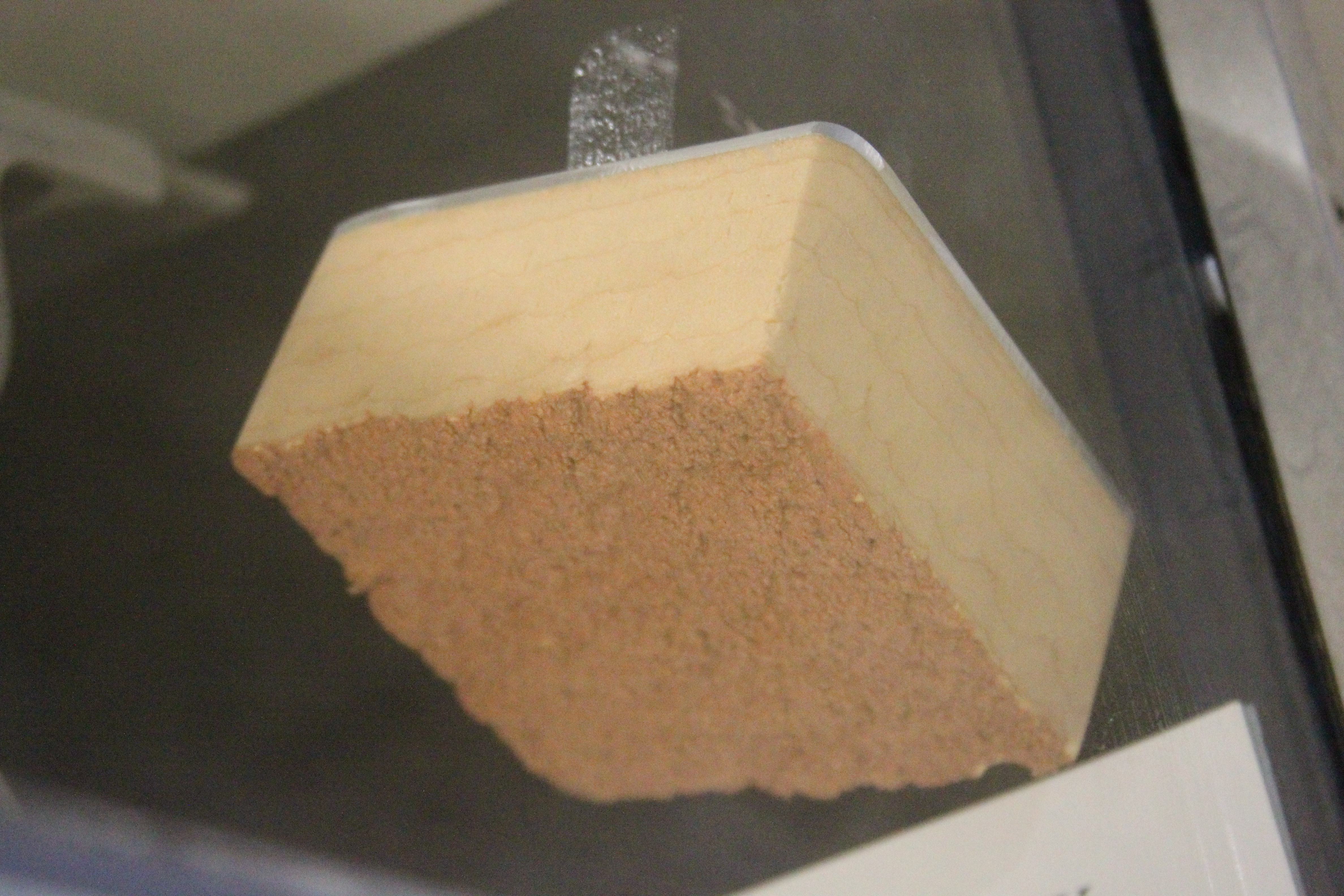 The Space Shuttle Columbia disintegrated on reentry because a block of foam fell from the External Tank onto the reinforced carbon-carbon wing-leading edge of the Space Shuttle. After the disintegration, engineers demonstrated the damage that could be wrought by a small block of foam, and the panels ruined during the demonstrations, along with a block of foam, are on display at the U.S. Space and Rocket Center.